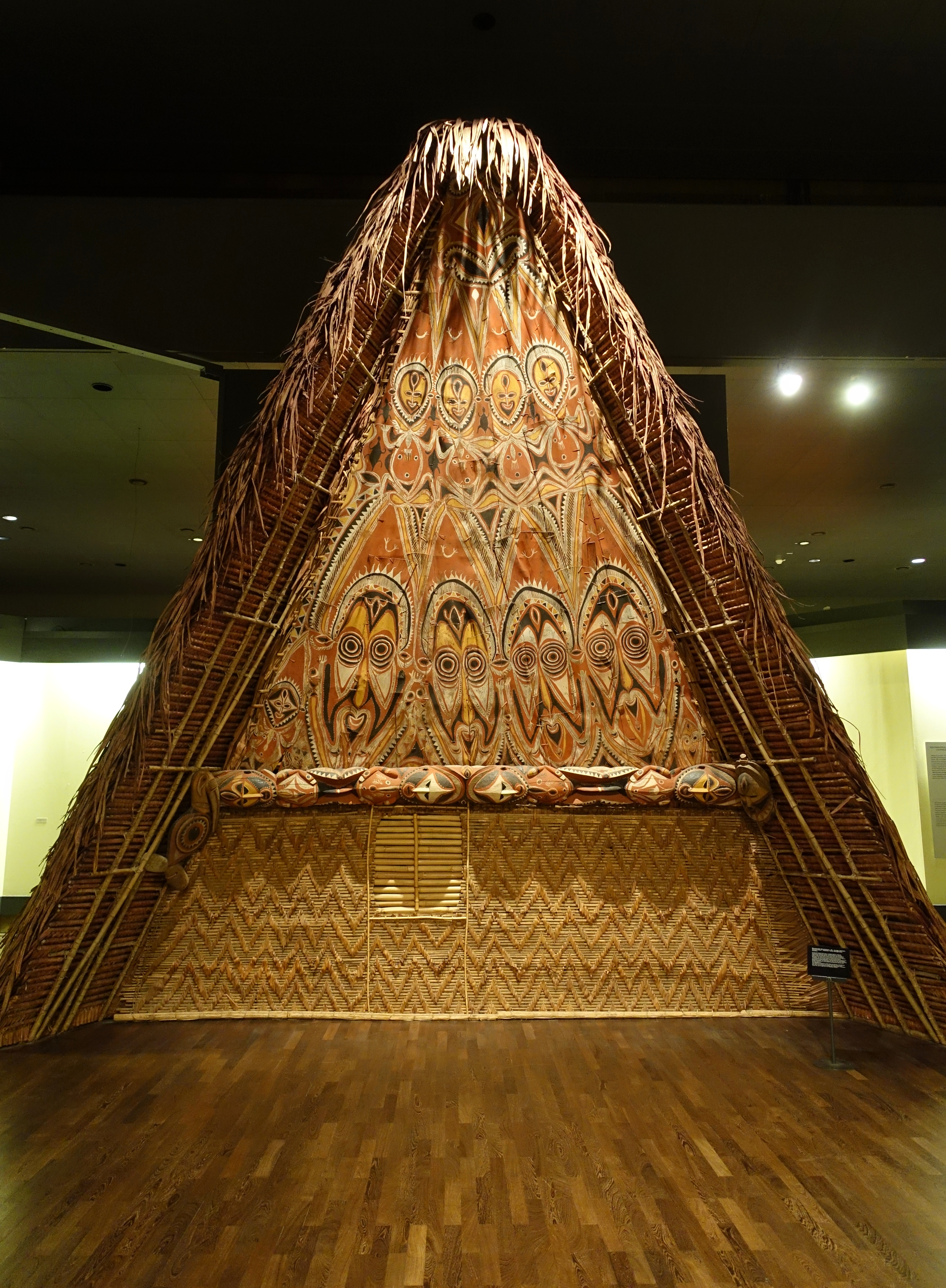 Exhibit in the Südseeabteilung - Ethnological Museum, Berlin, Germany.